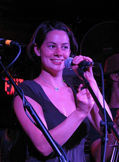 Bonnie Paine of Elephant Revival performing at The Saint in Asbury Park, NJ 06162011